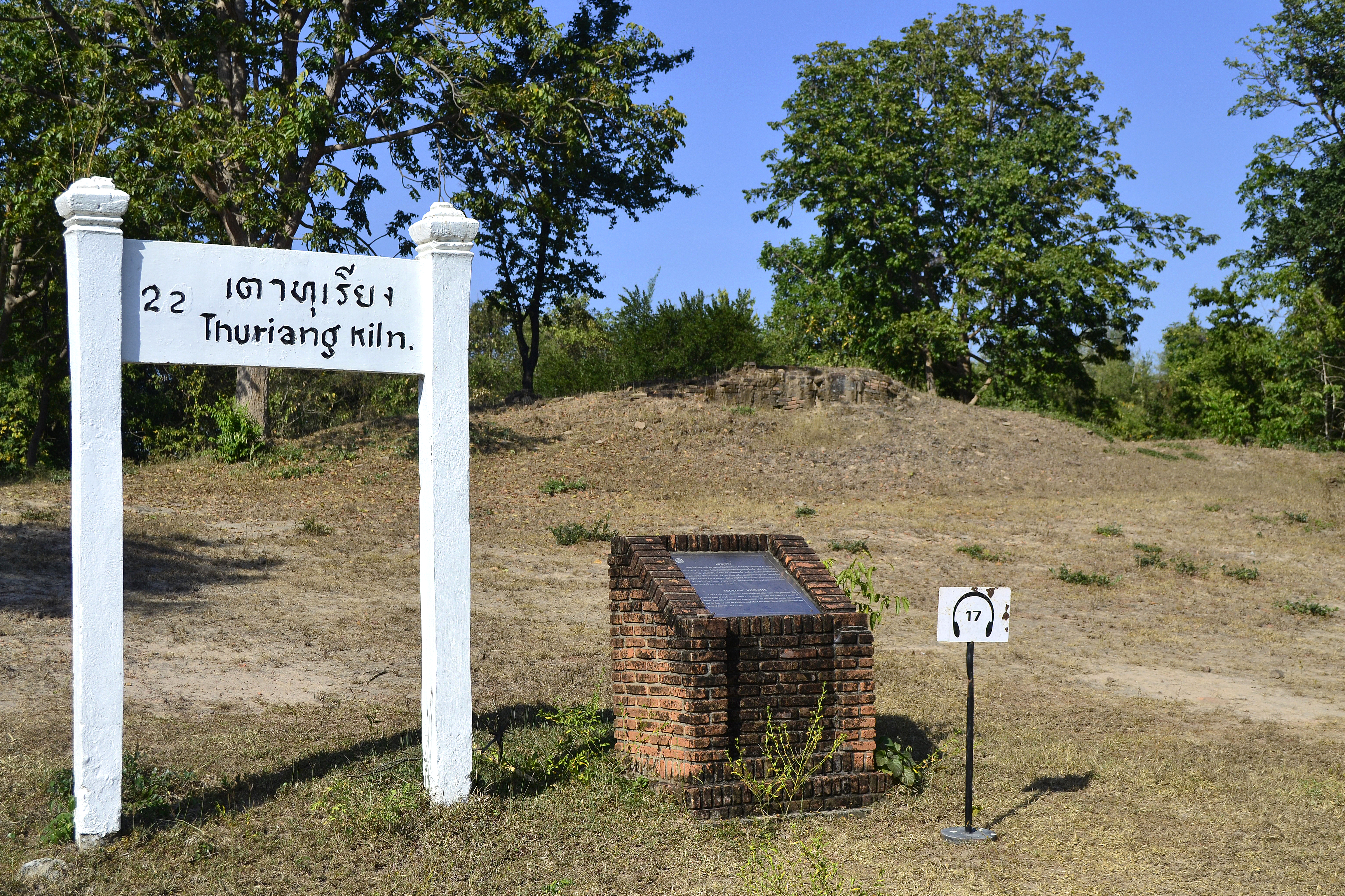 Tao Thuriang (เตาทุเรียง) Ruins of the old celadon factories (Tao Turiang / Thuriang Kiln), Sukhothai historical park